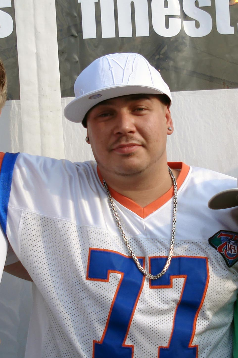 German Rapper Big Pillath of Snaga & Pillath.